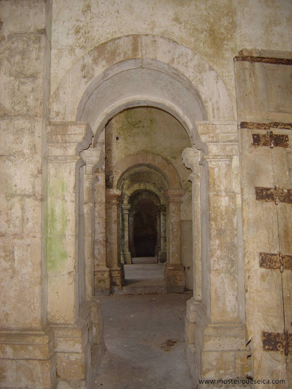 Mosteiro de Seiça 03